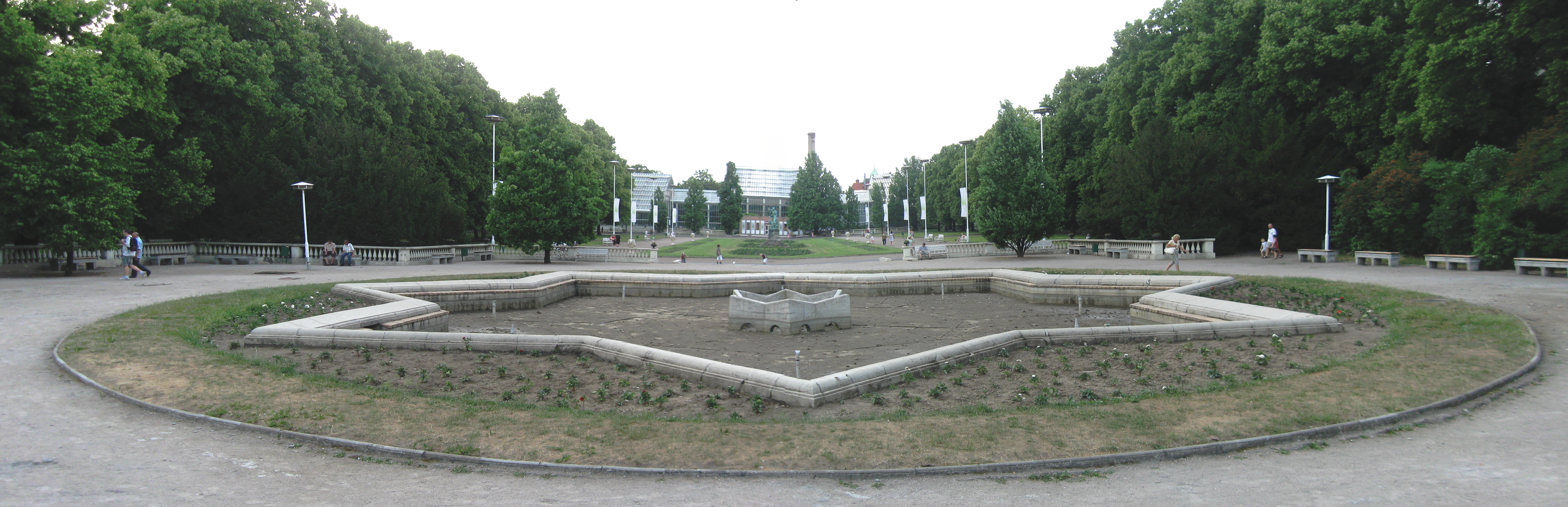 Fountain in Wilson Park in Poznań